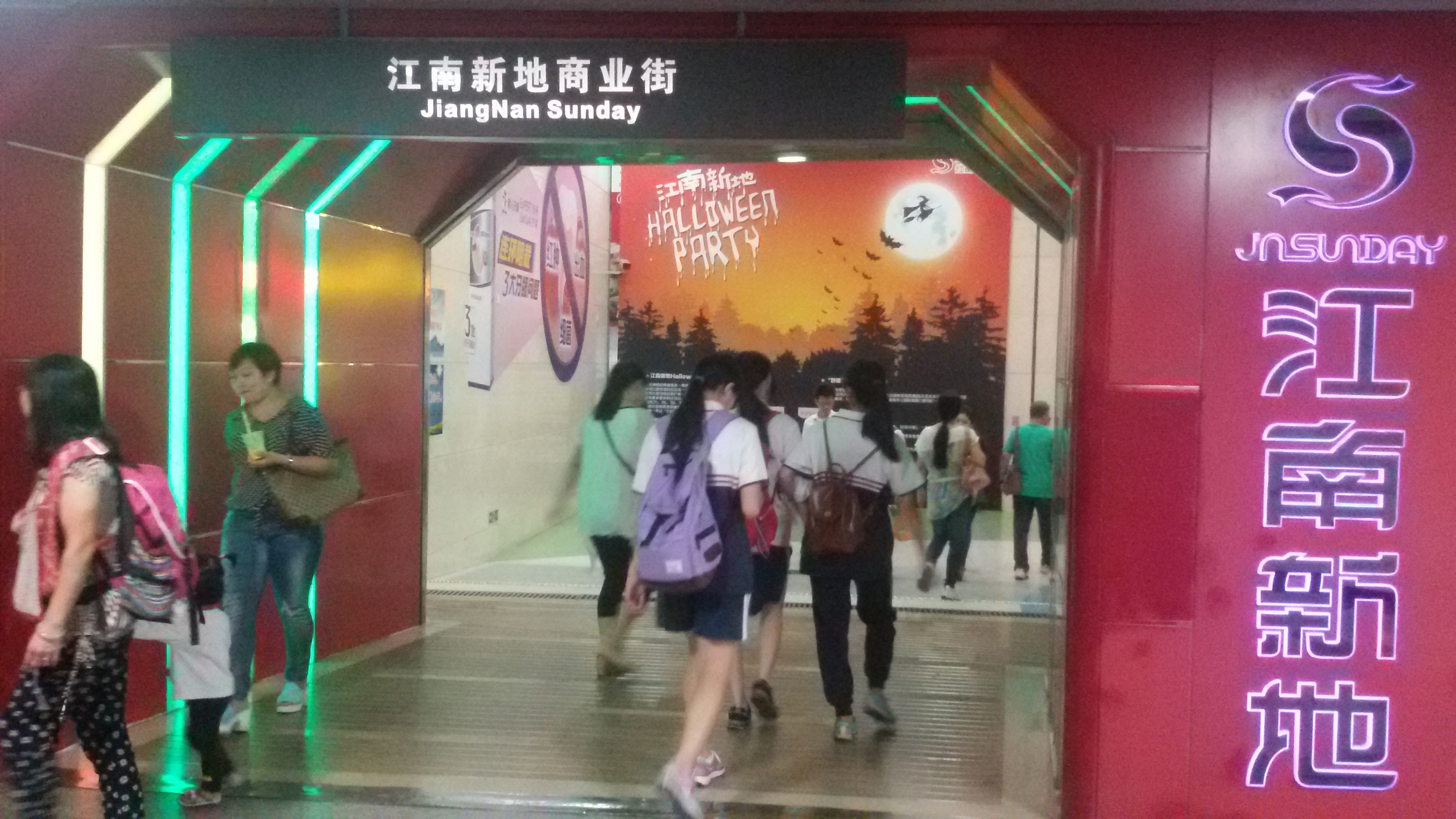 GONGNAM SUNDAY